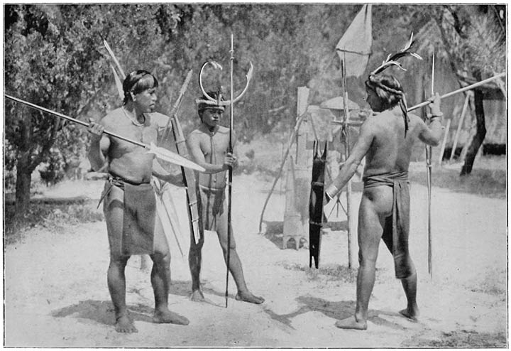 Igorote spearmen(c. 1900, Philippines)